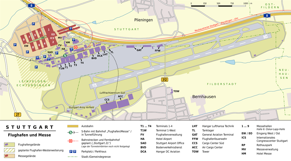 Map of Stuttgart Airport and adjacent Stuttgart Trade Fair, Germany